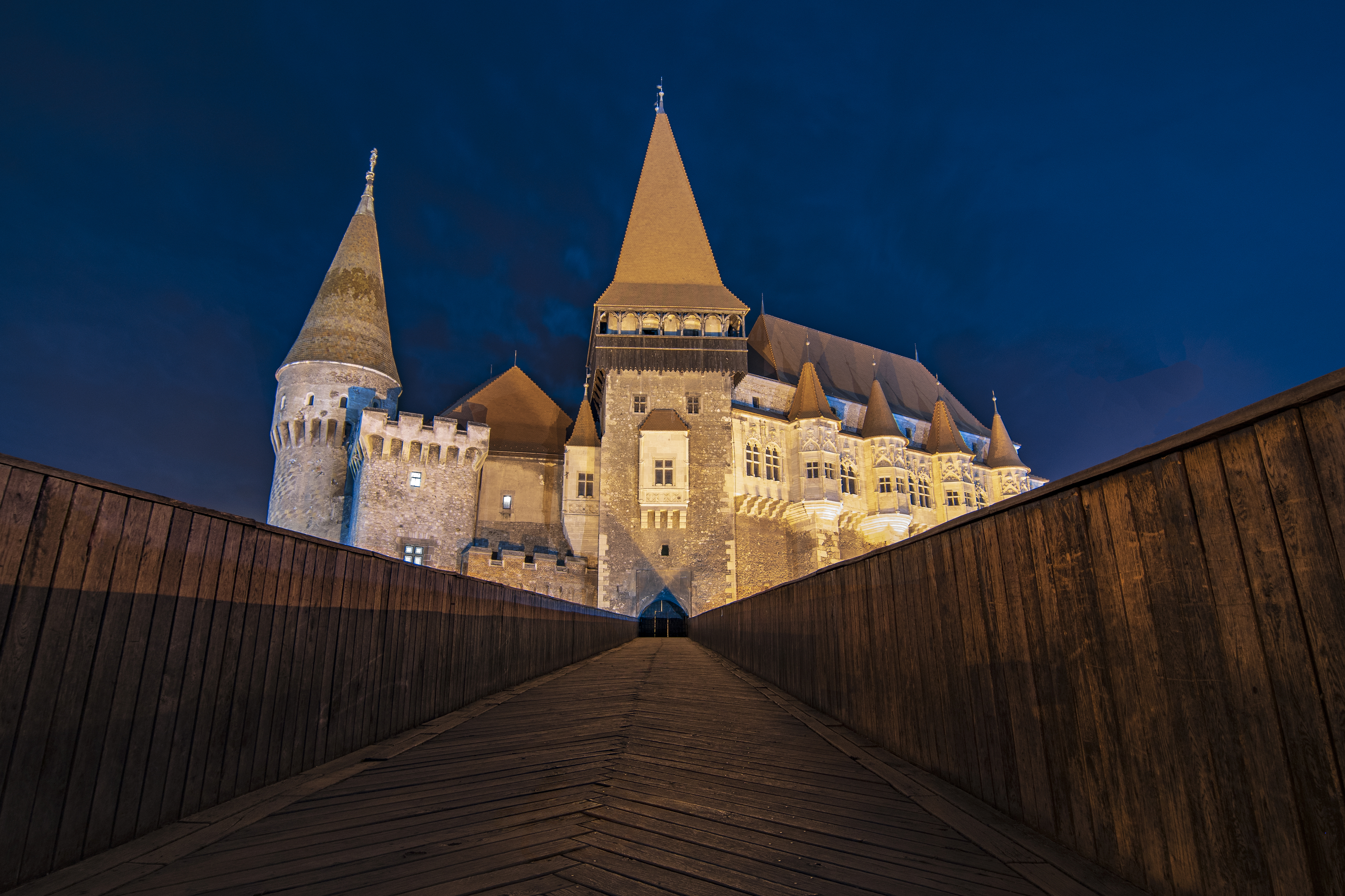 Corvin Castle, also known as Hunyadi Castle or Hunedoara Castle (Romanian: Castelul Huniazilor or Castelul Corvinilor; Hungarian: Vajdahunyadi vár), is a Gothic-Renaissance castle in Hunedoara, Romania.